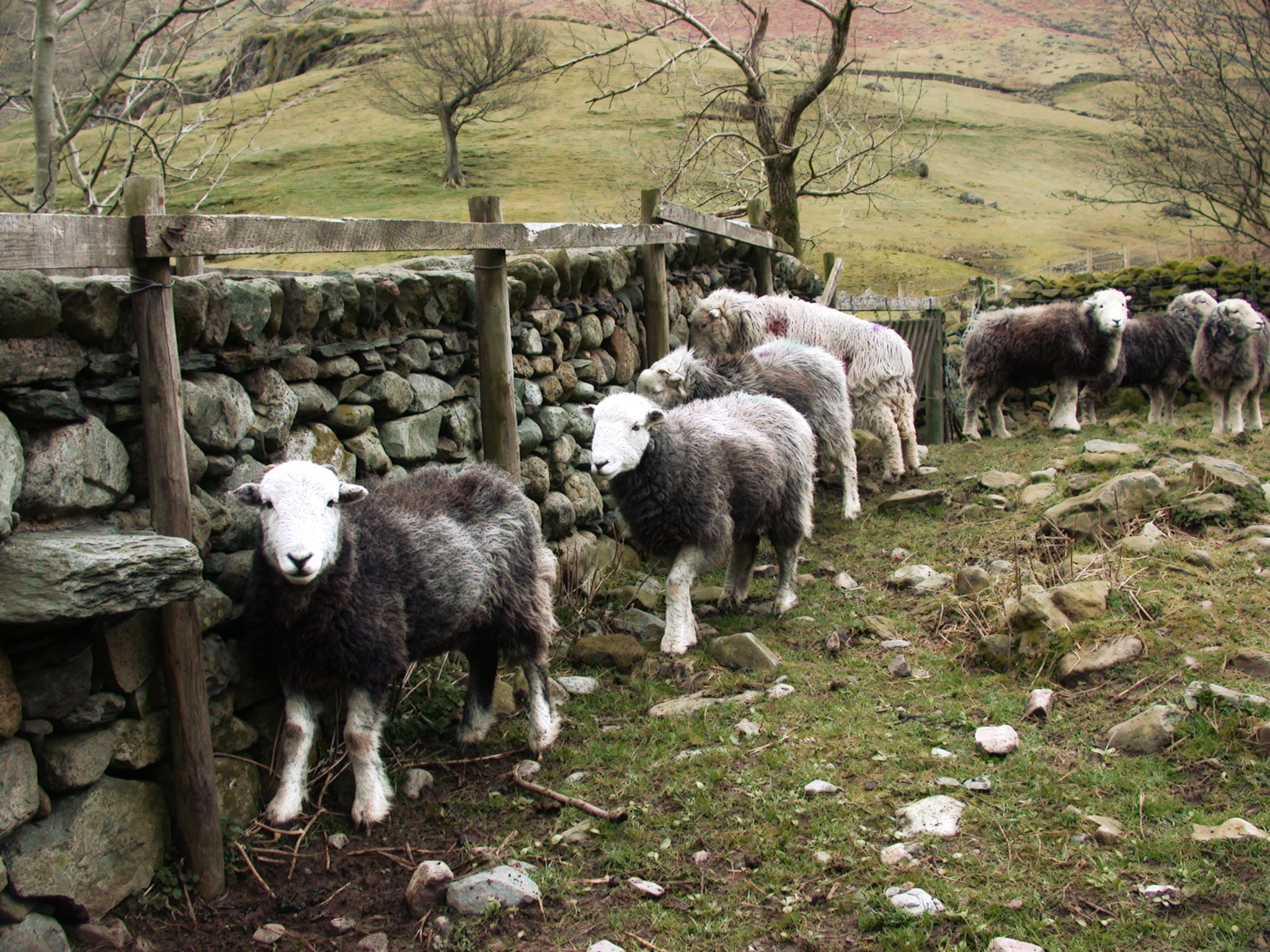 A flock of Herdwick sheep from the Lake District, UK